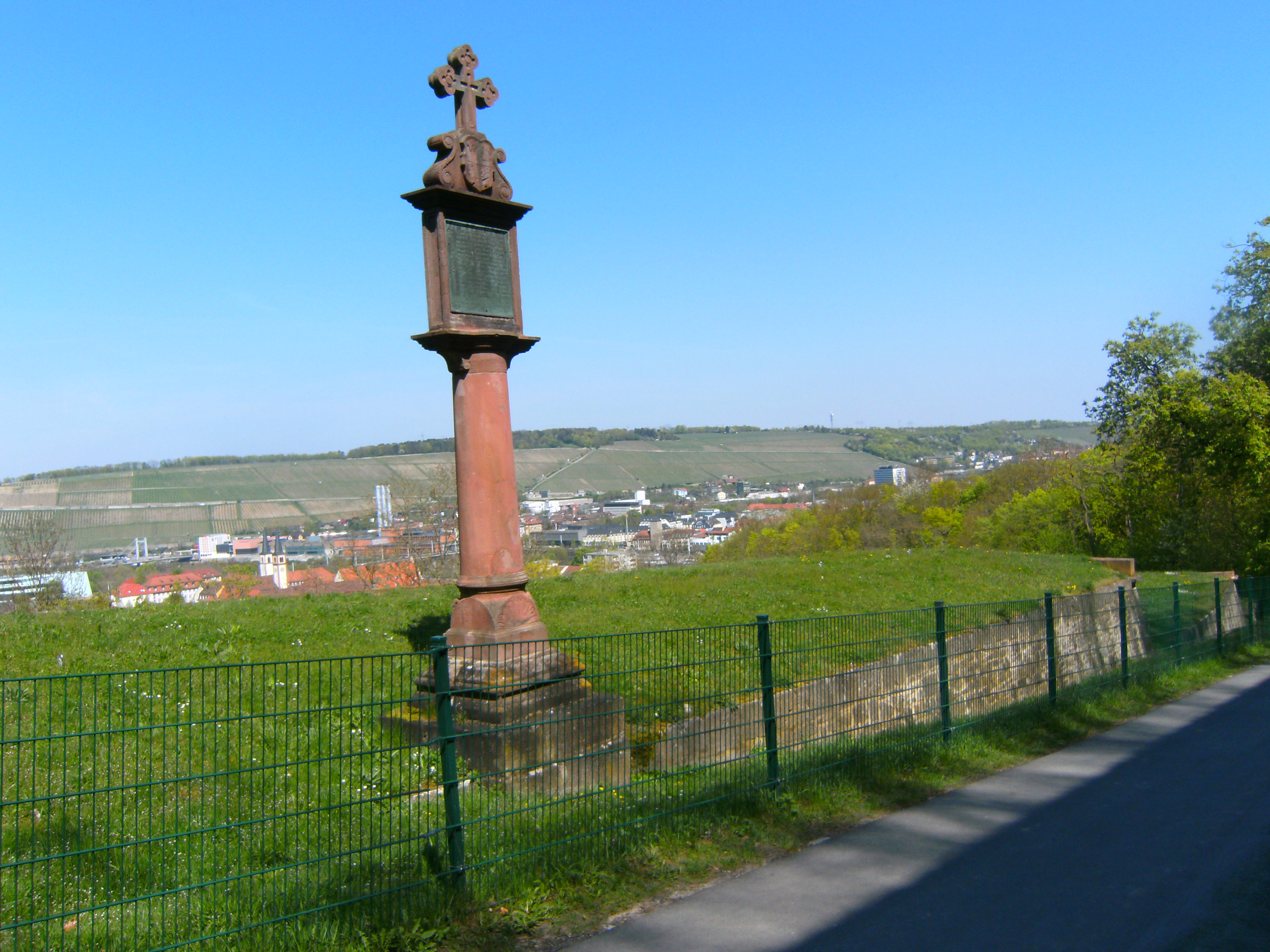 Festung Marienberg (fortress Marienberg), Würzburg, Germany: Cross of remembrence at the foot of the fortification.